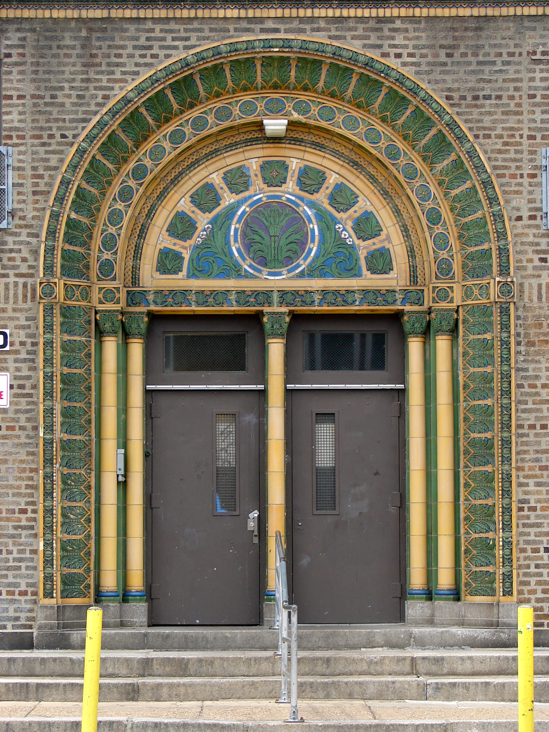 Door at Clara Barton School in Philadelphia on the NRHP since November 18, 1988. At 300 East Wyoming Avenue in the Feltonville neighborhood of Lower Northeast Philly.